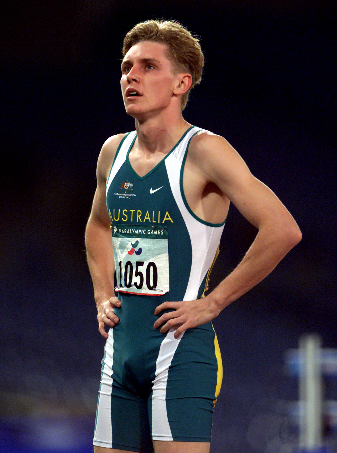 Portrait of Australian track athlete Andrew Newell after he wins bronze in the 400 m T20 event at the 2000 Sydney Paralympic Games